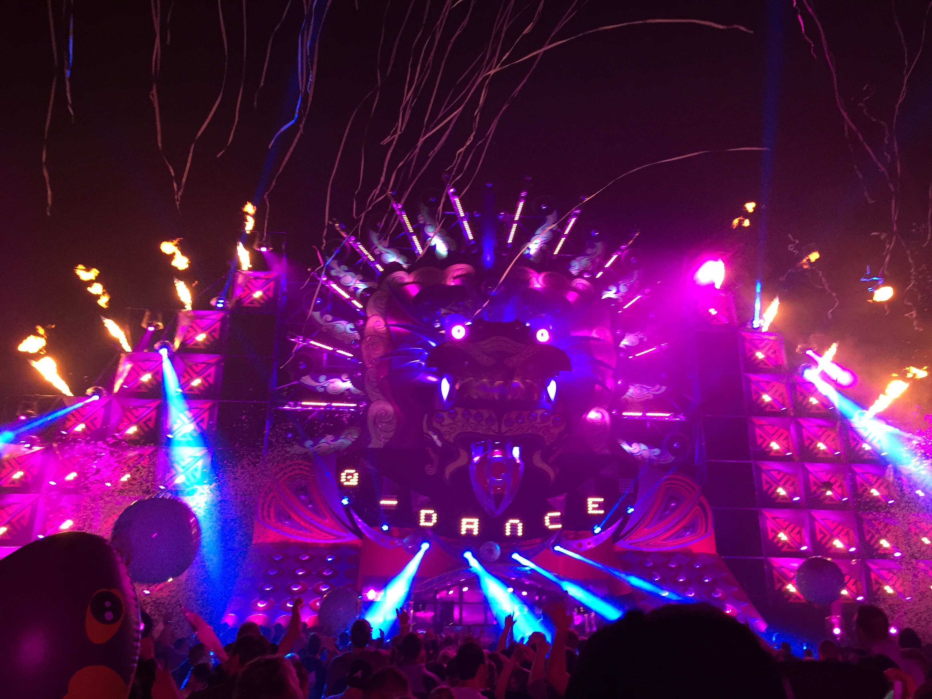 The Q-Dance Stage at Airbeat One Festival 2016 in Germany